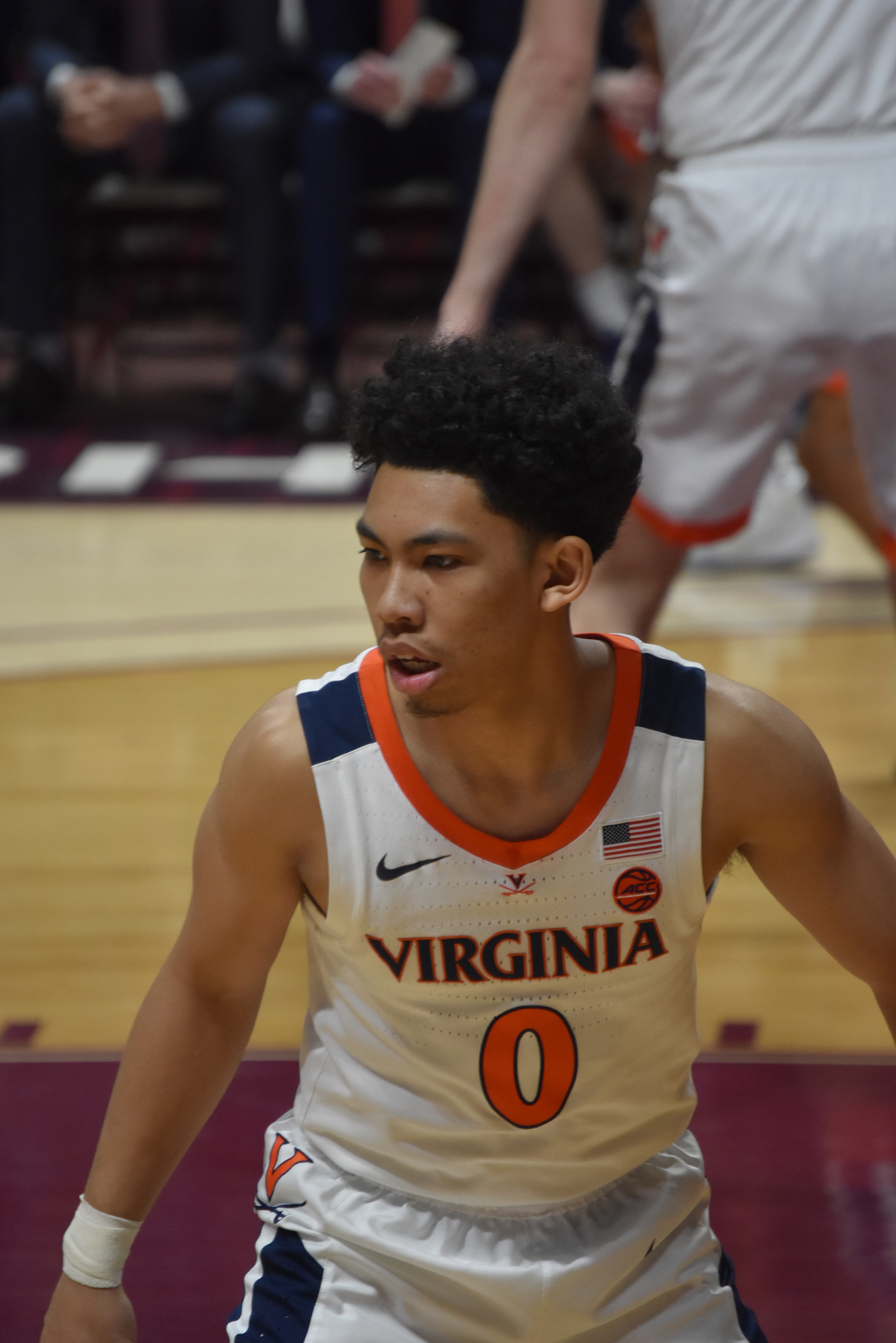 Kihei Clark on the floor for the Cavaliers at Cassell Coliseum